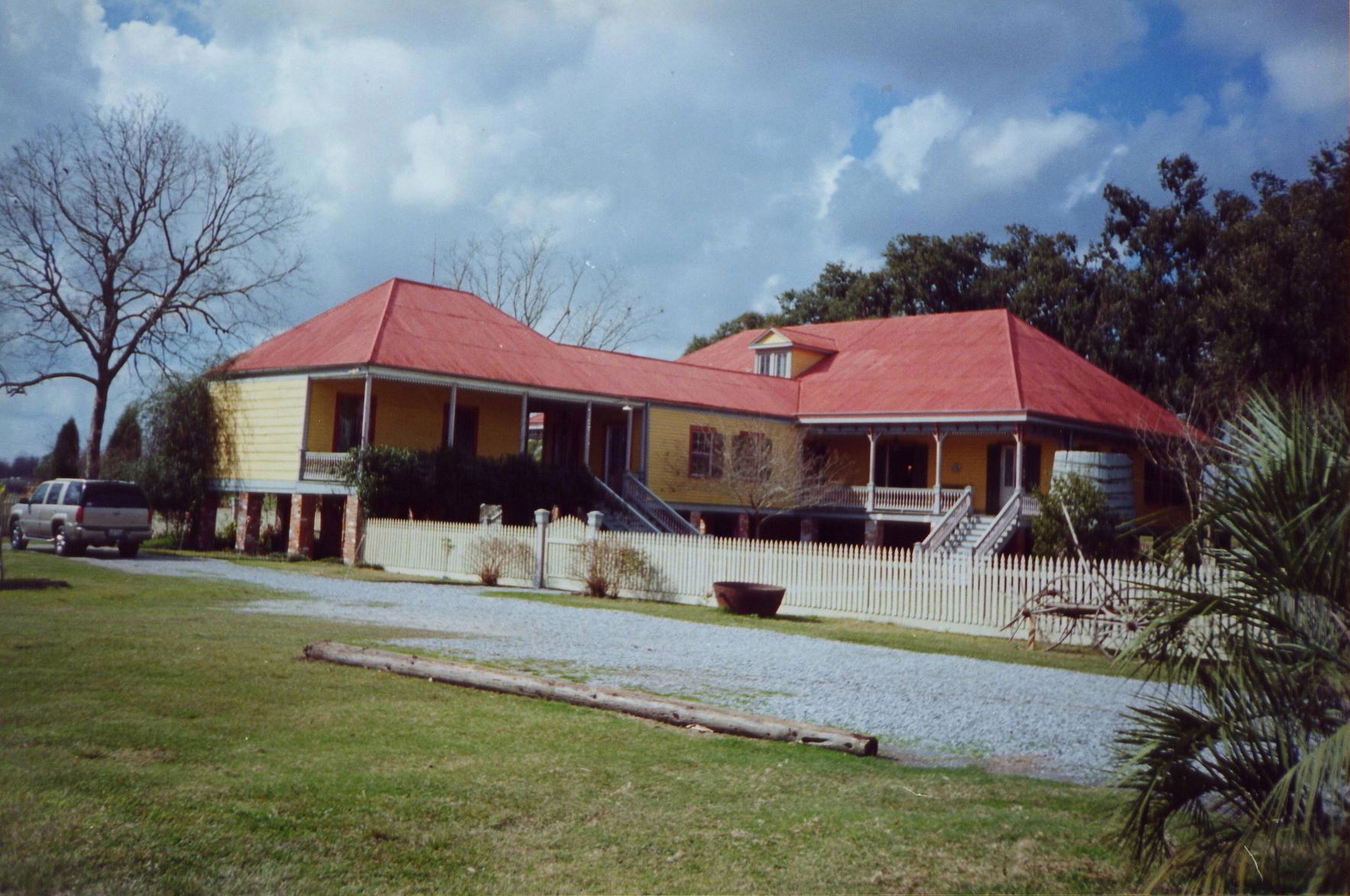 Laura Plantation, St. James Parish, Louisiana. Plantation house from back side. Photo by Infrogmation, 2002